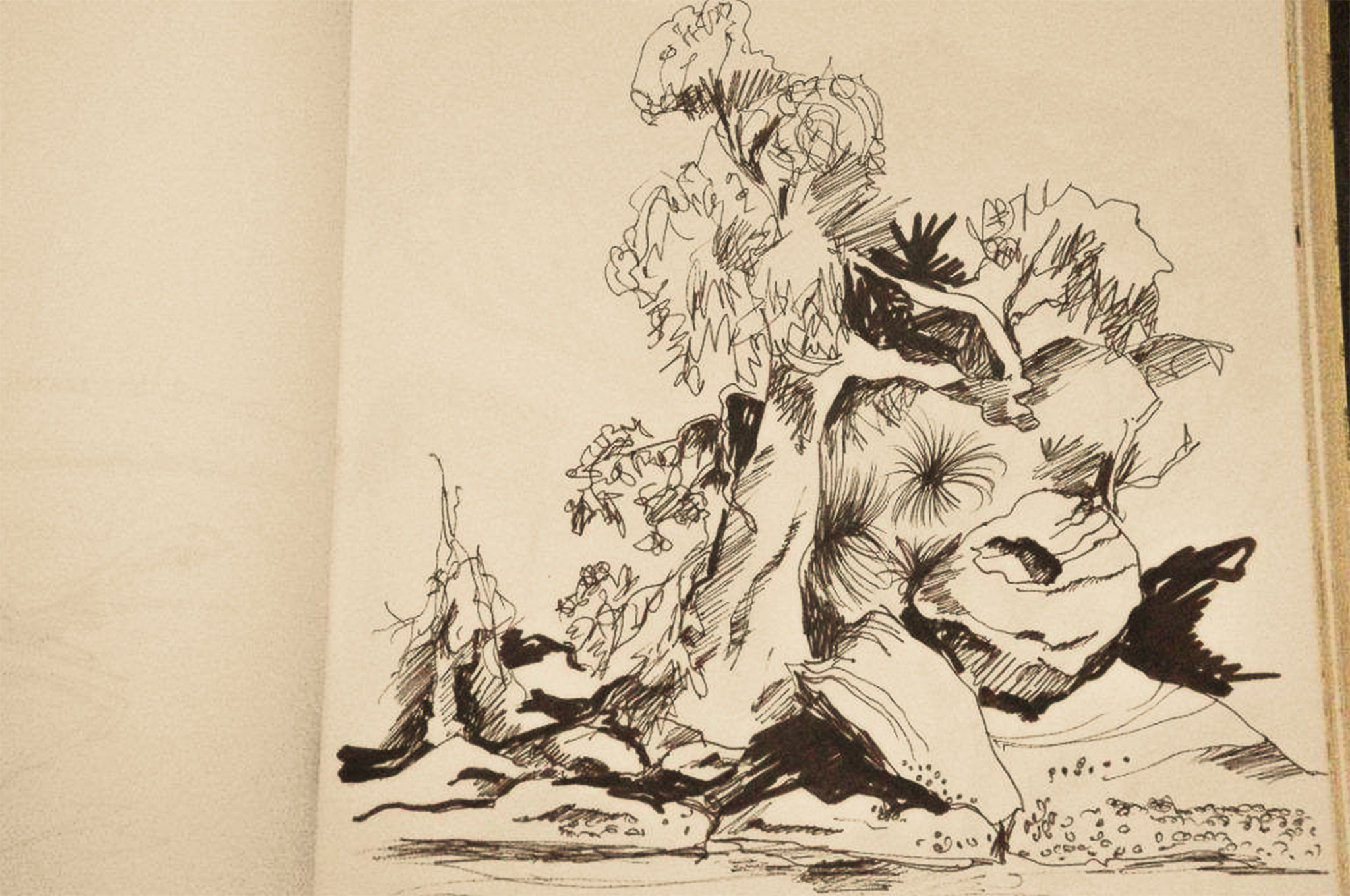 Pen and ink drawing Hawkesbury River 1980s by Ian Sprague; photographed in a private collection at Enfield Victoria